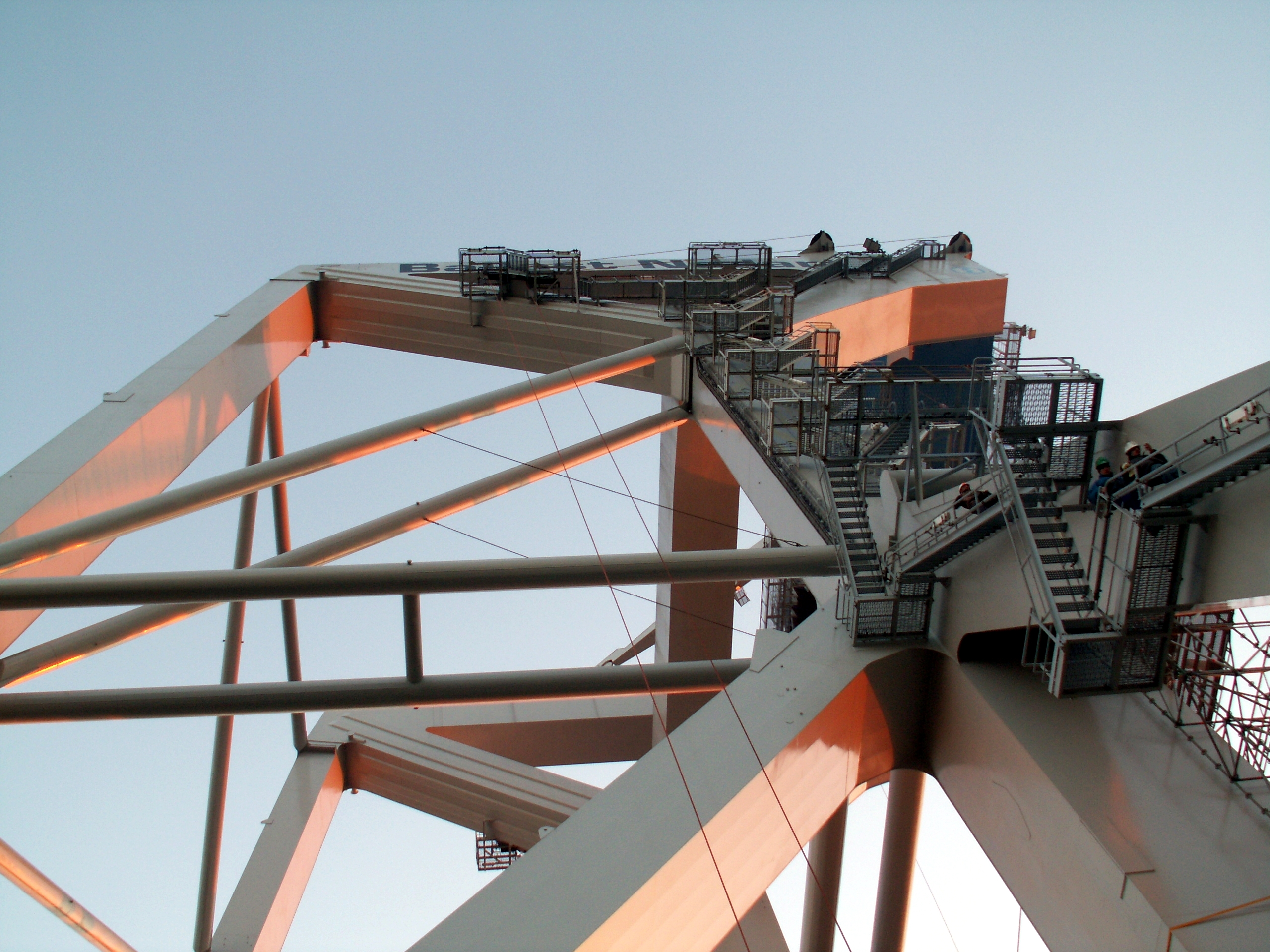 Photographed at Port of Rotterdam, The Netherlands